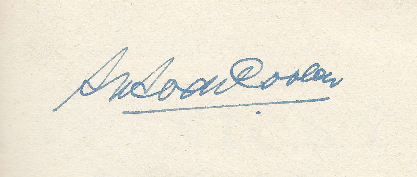 Signature of the Dutch novelist Antoon Coolen